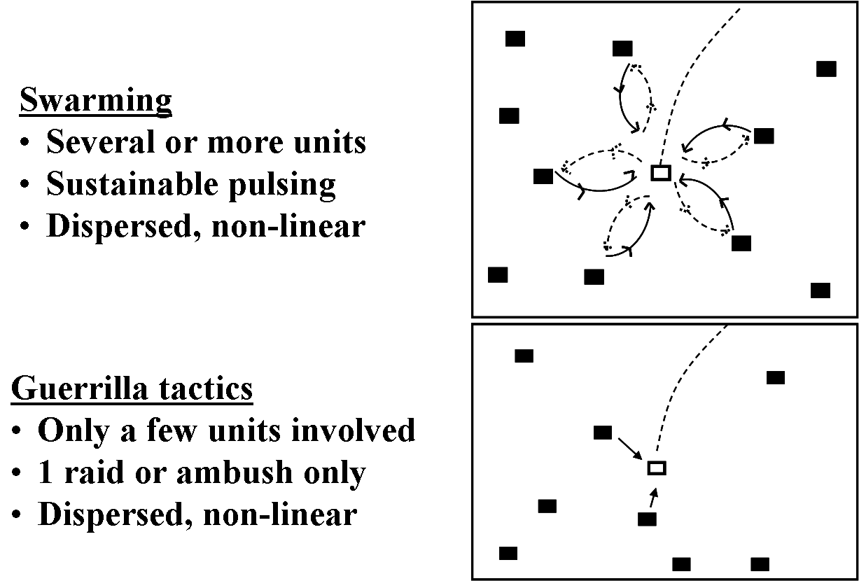 Comparison between Swarming and Guerilla Ambushed